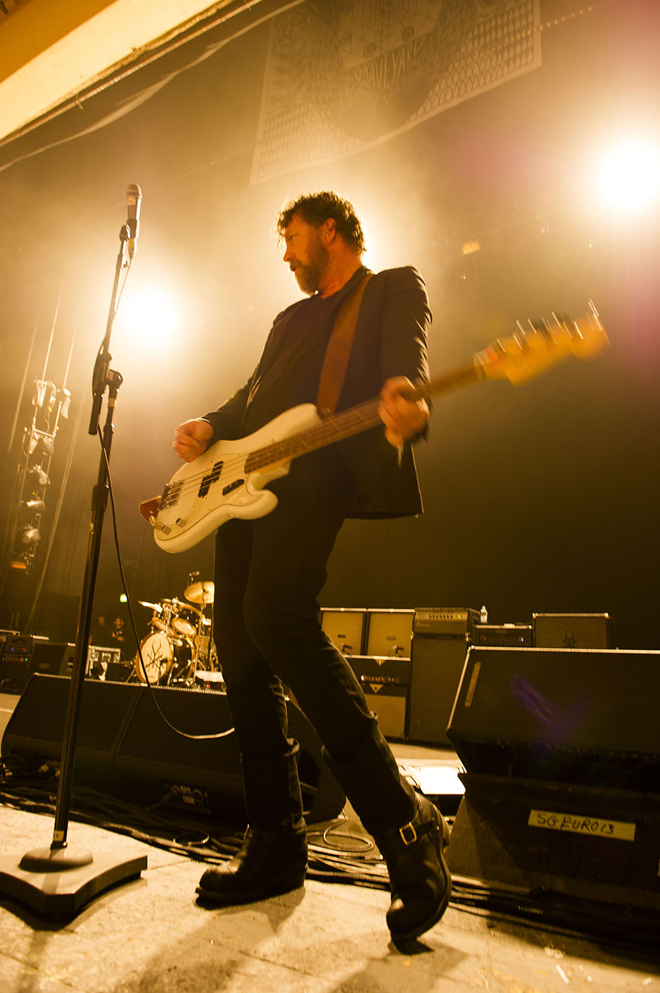 Ben Shepherd performing live with Soundgarden at Brixton Academy in 2013.